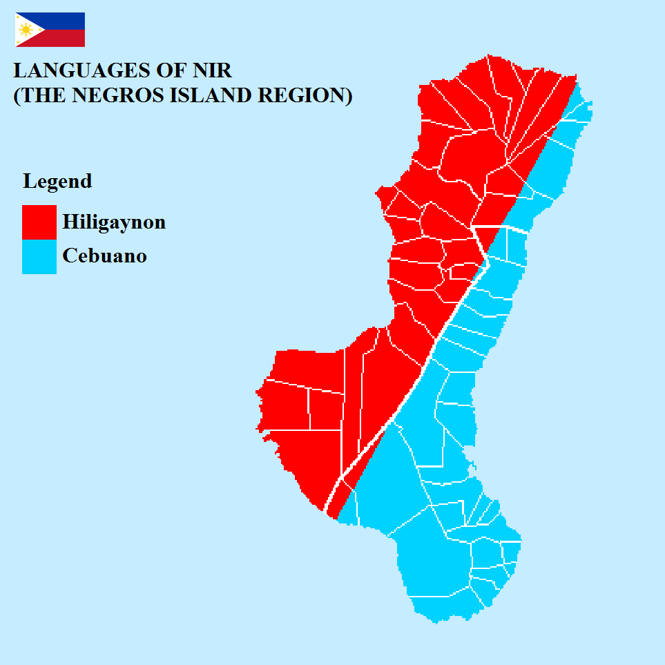 Language Map of the Negros Island Region (NIR). Hiligaynon: Mapa sang duha nga mga pamulong sang Rehiyon sang Pulo sang Negros (NIR). Cebuano: Mapa sa duha ka mga pinulongan sa Rehiyon sa Pulo sa Negros (NIR). 粵語: 內格羅斯島地域(NIR)嘅語言地圖.